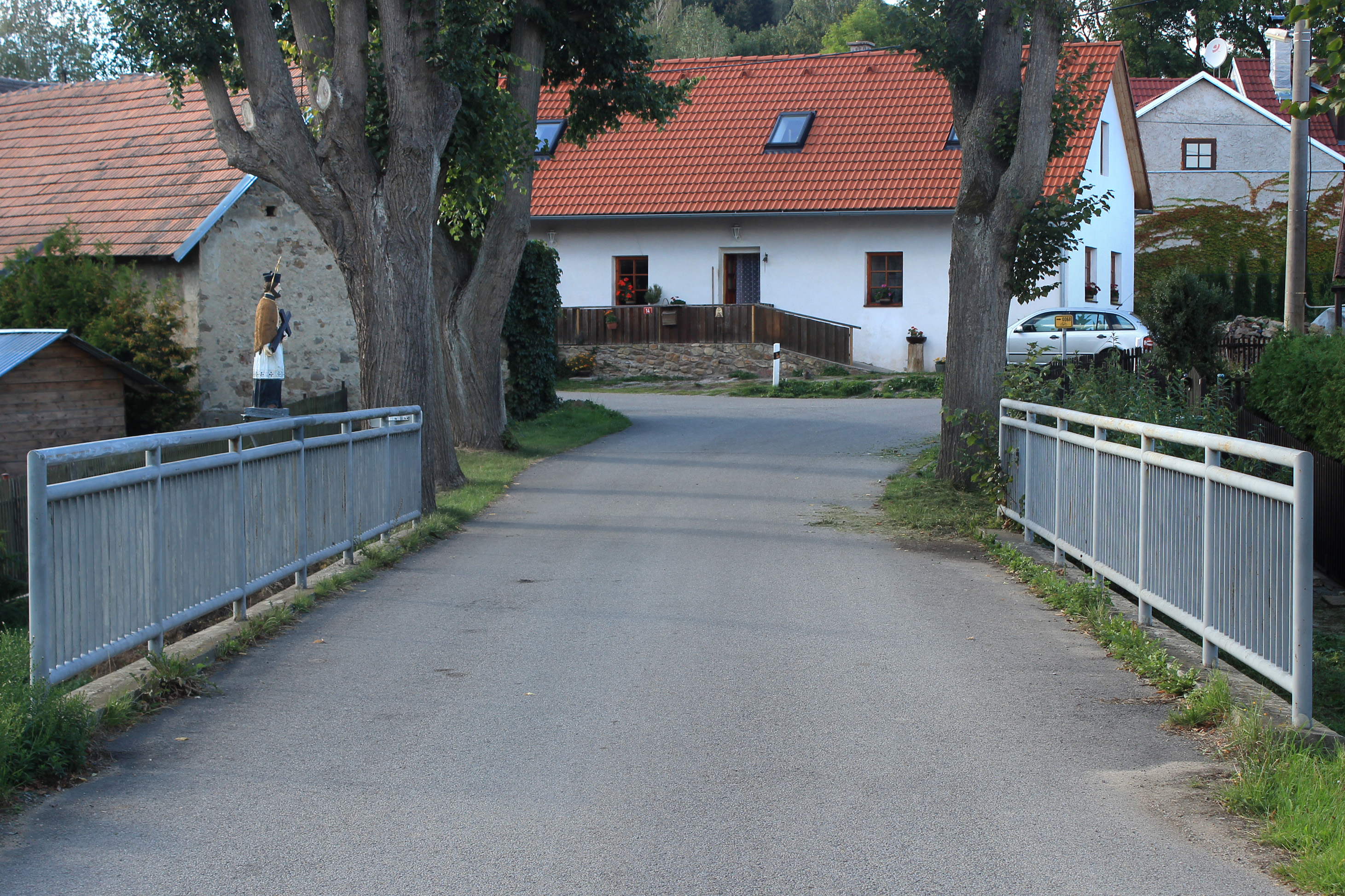 Bridge over Novoveský creek in Nová Ves, part of Postupice, Czech Republic.